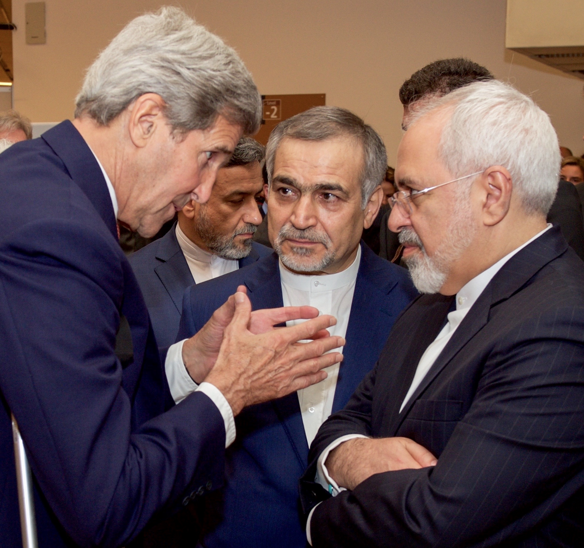 U.S. Secretary of State John Kerry speaks with Hossein Fereydoun, the brother of Iranian President Hassan Rouhani, and Iranian Foreign Minister Javad Zarif, before the Secretary and Foreign Minister addressed an international press corps gathered at the Austria Center in Vienna, Austria, on July 14, 2015, after the European Union, United States, and the rest of its P5+1 partners reached agreement on a plan to prevent Iran from obtaining a nuclear weapon in exchange for sanctions relief. [State Department photo/ Public Domain]